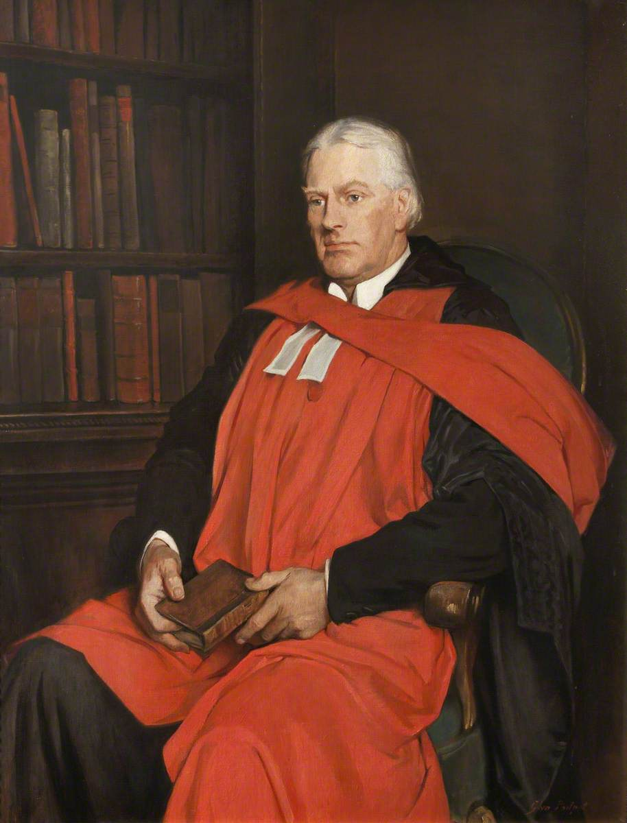 Francis William Pember (1862-1934)